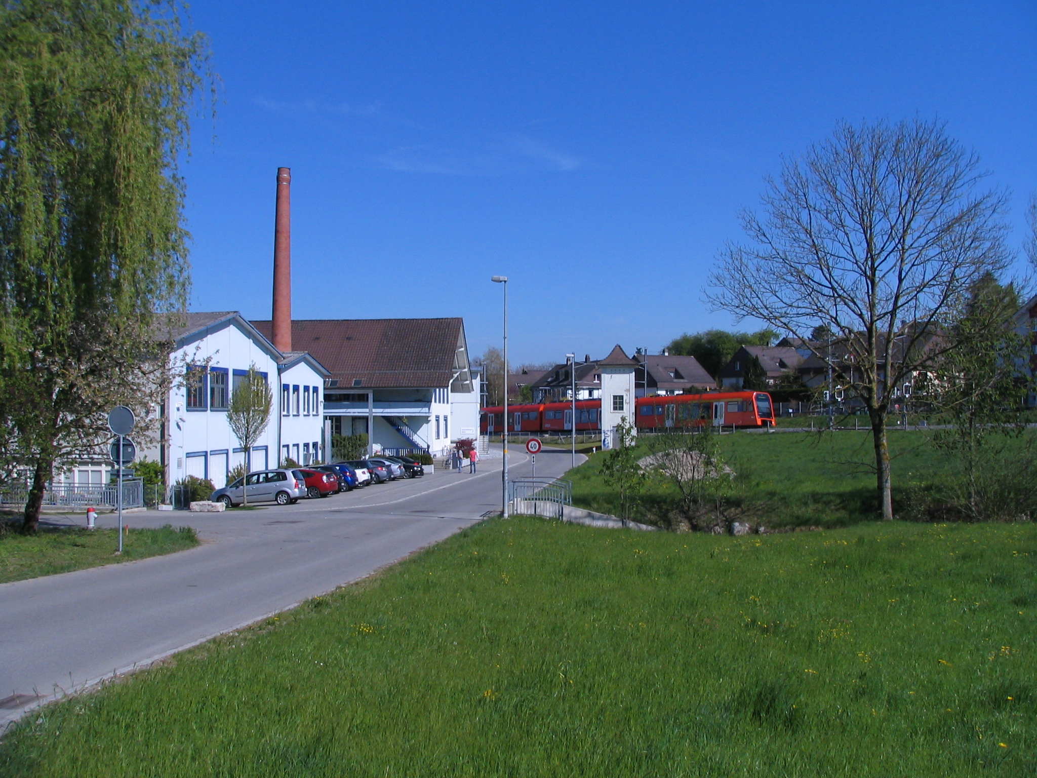 Fraubrunnne, Kirchgasse, industrial zone and train